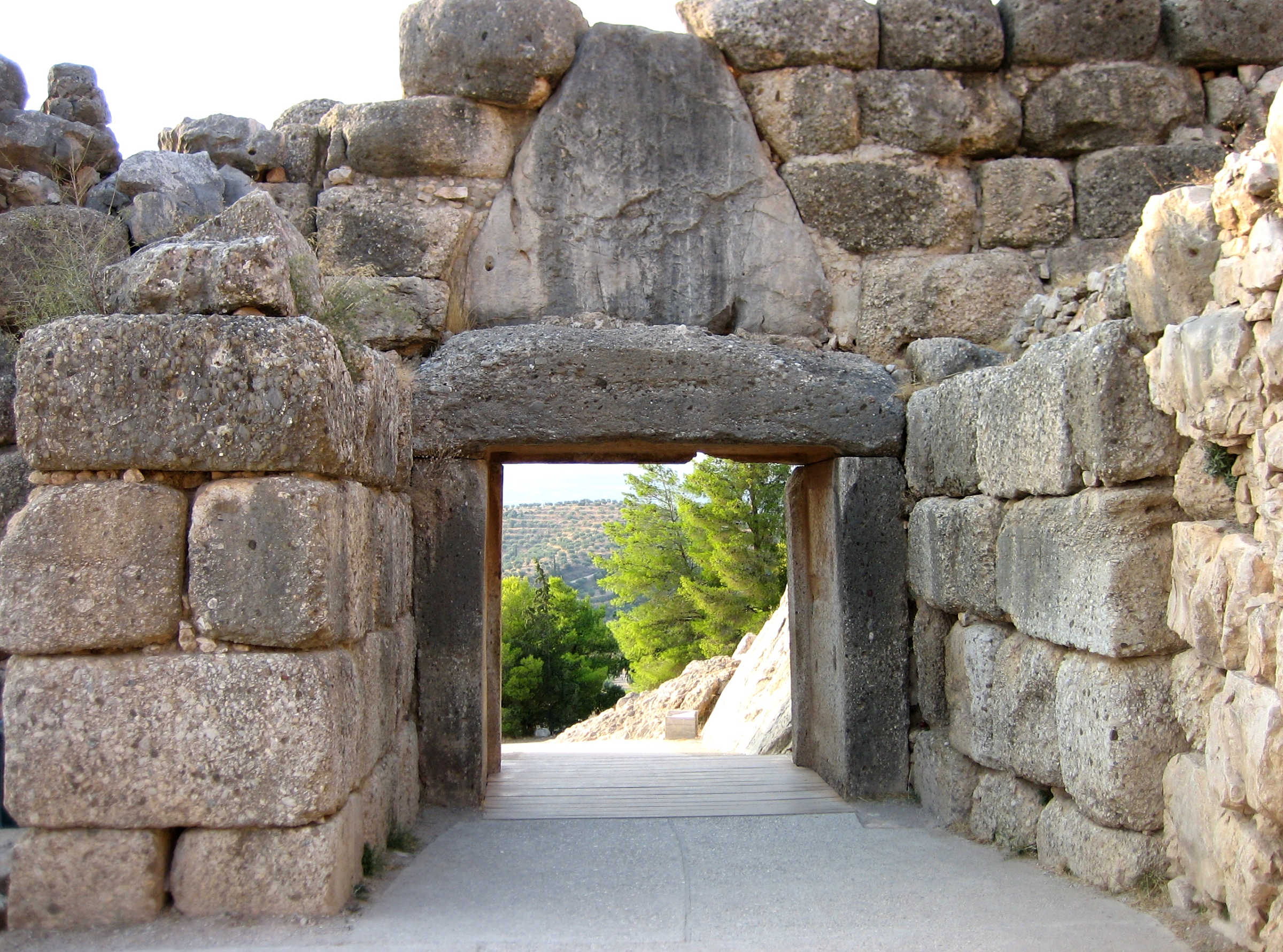 The Lion Gate at Mycenae in Greece, seen from inside the citadel.